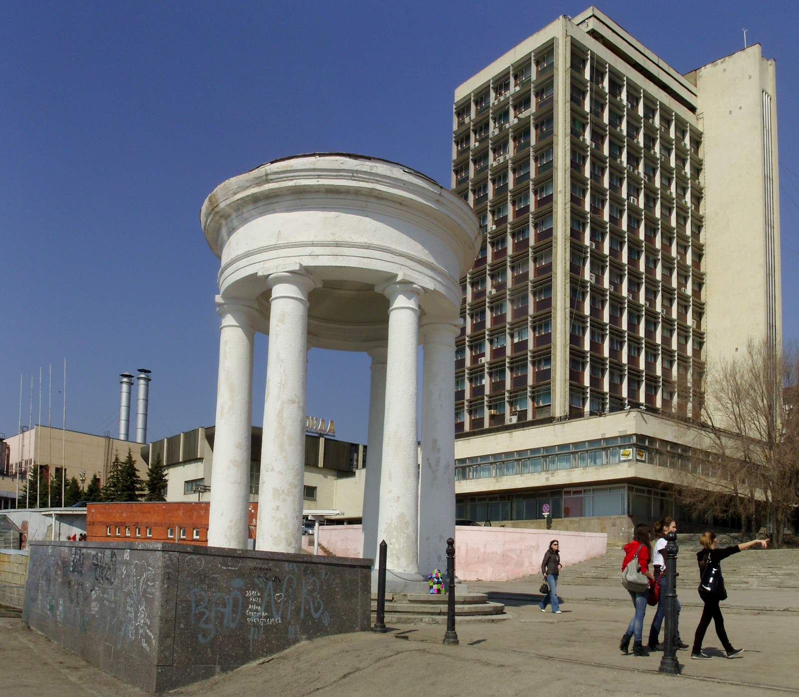 Rotonda on naberezhnaya, Saratov